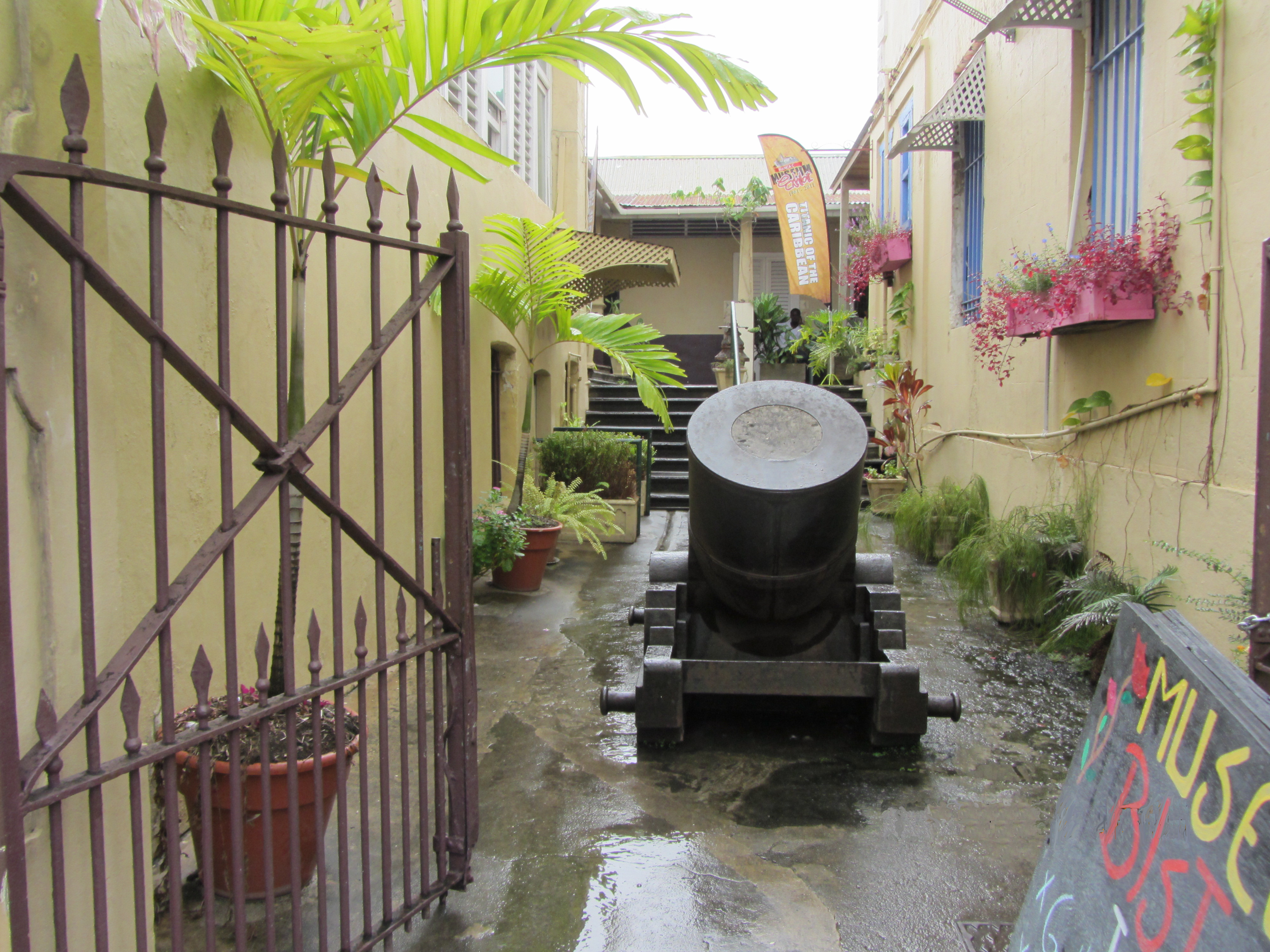 Mortar in Grenada National Museum on Monckton Street in St. George's